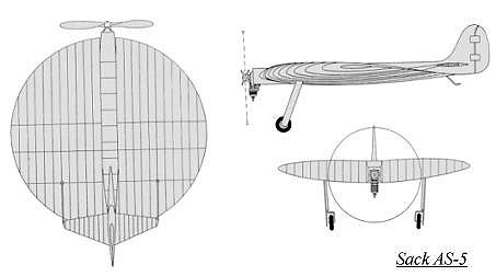 Sack's AS-5